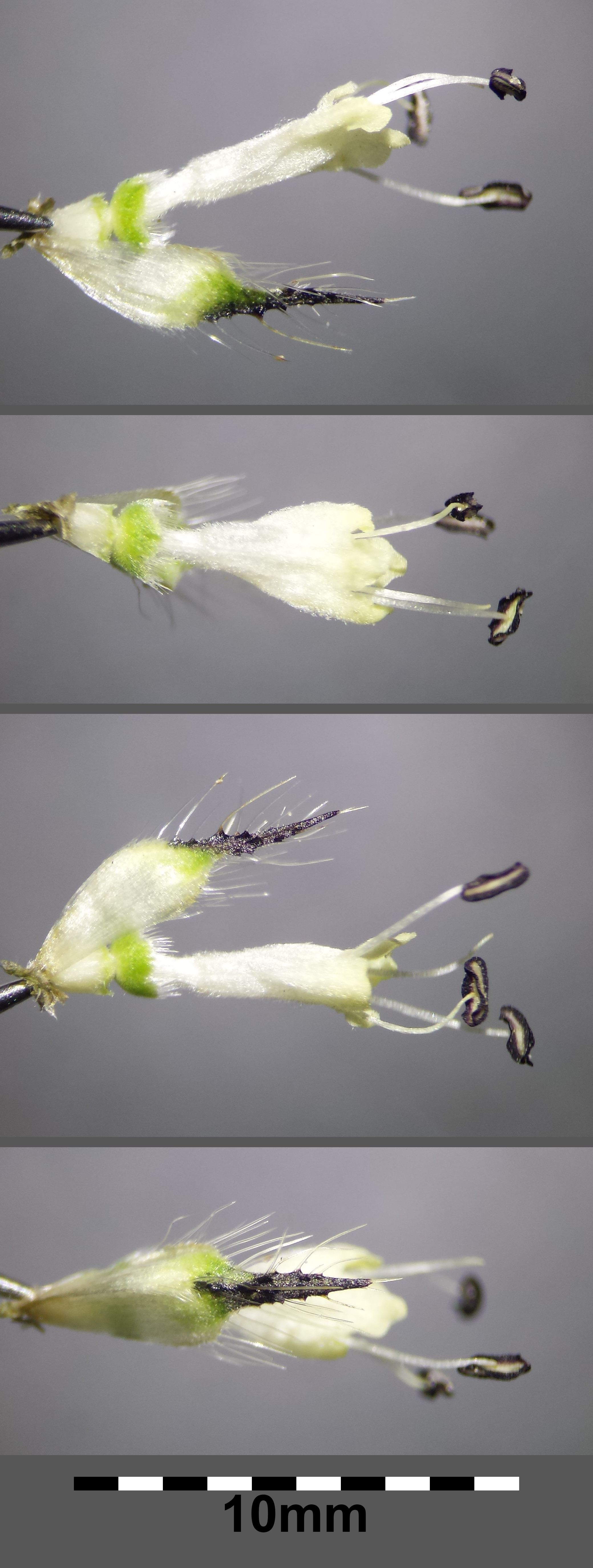 Flower with shorter bract Taxonym: Dipsacus pilosus ss Fischer et al. EfÖLS 2008 ISBN 978-3-85474-187-9 Location: next to Hatzenbach, district Korneuburg, Lower Austria - 225 m a.s.l. Habitat: quarry